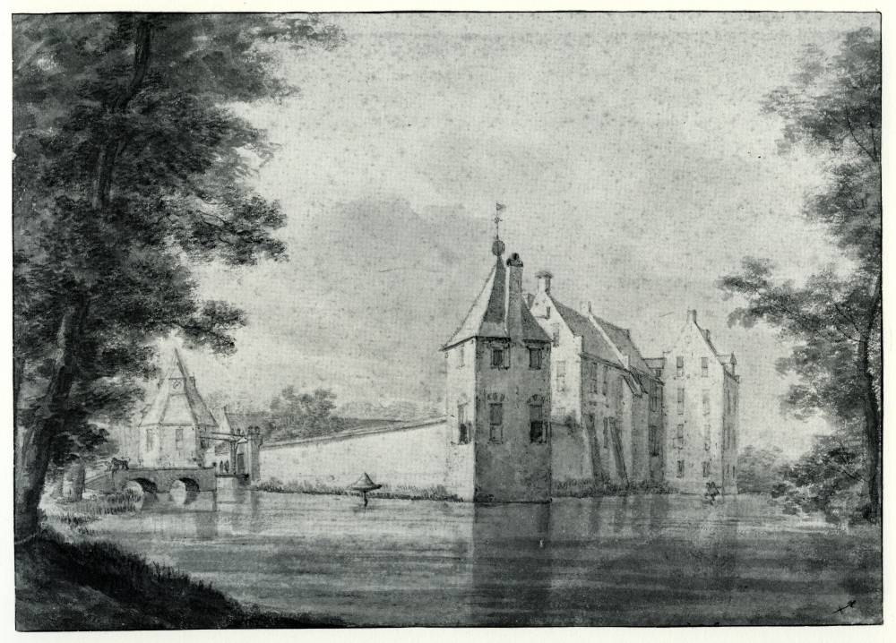 Castle Schalkwijk